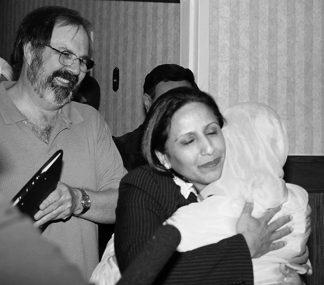 a winning hug